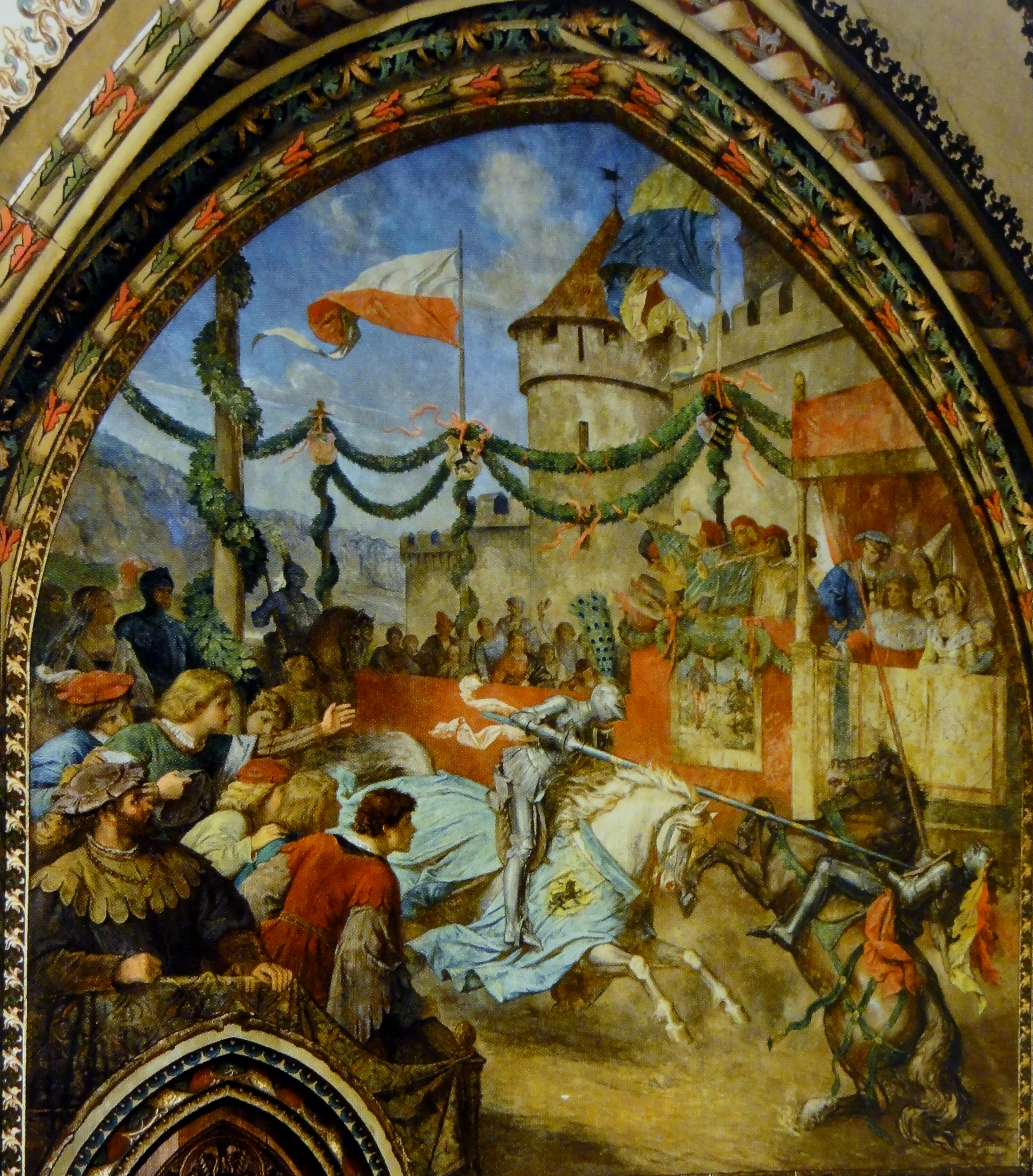 Duke Albert of Saxony at the tournament in Pirna beats a knight from Pirna, 1483.